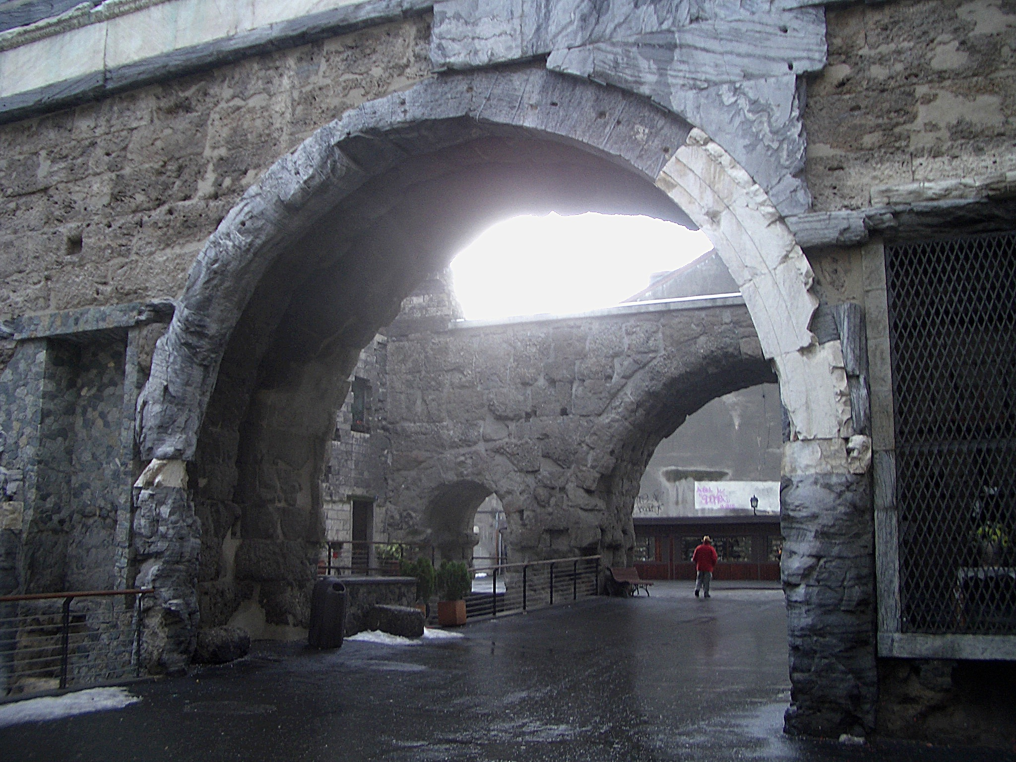 Porta Praetoria, Roman Architecture, Aosta, Italy